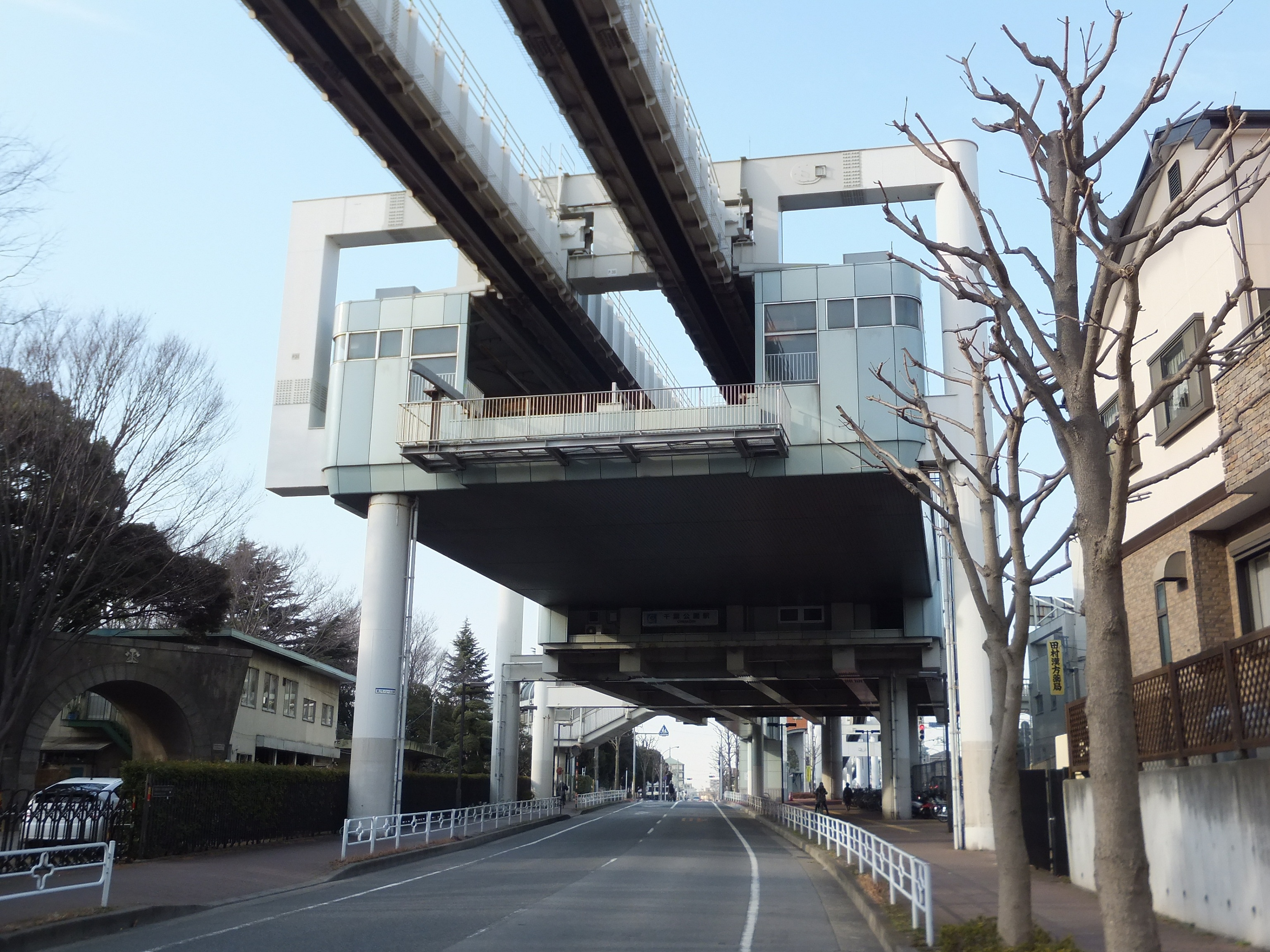 Chiba-kōen Station on Chiba Urban Monorail Line 2 in Chuō ward, Chiba city, Japan.